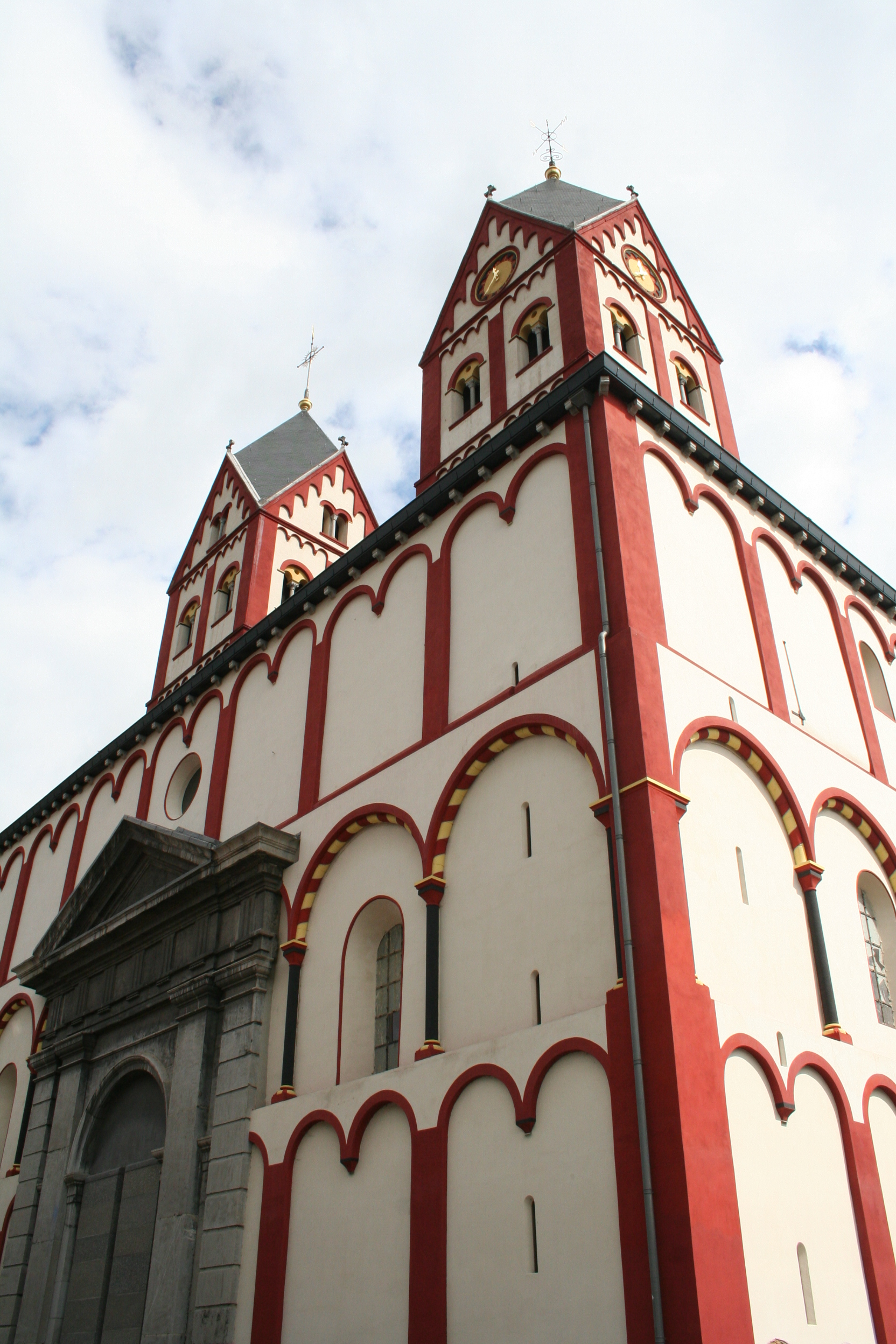 Liège (Belgium), the Saint Bartholomew collegiate church (XI-XIIth century).